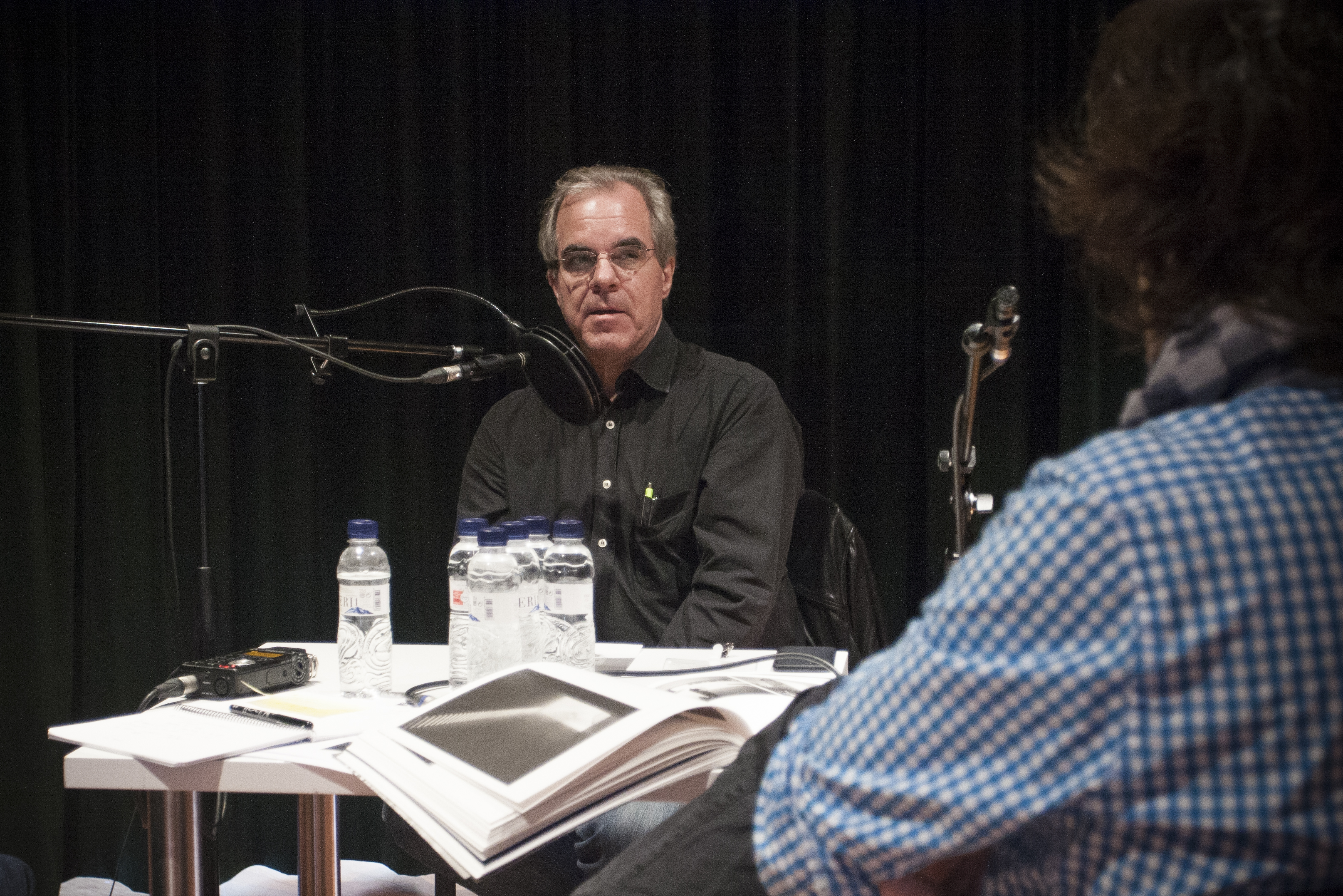 rwm.macba.cat/ rwm.macba.cat/ca/especials Foto: Gemma Planell / MACBA, 2015.